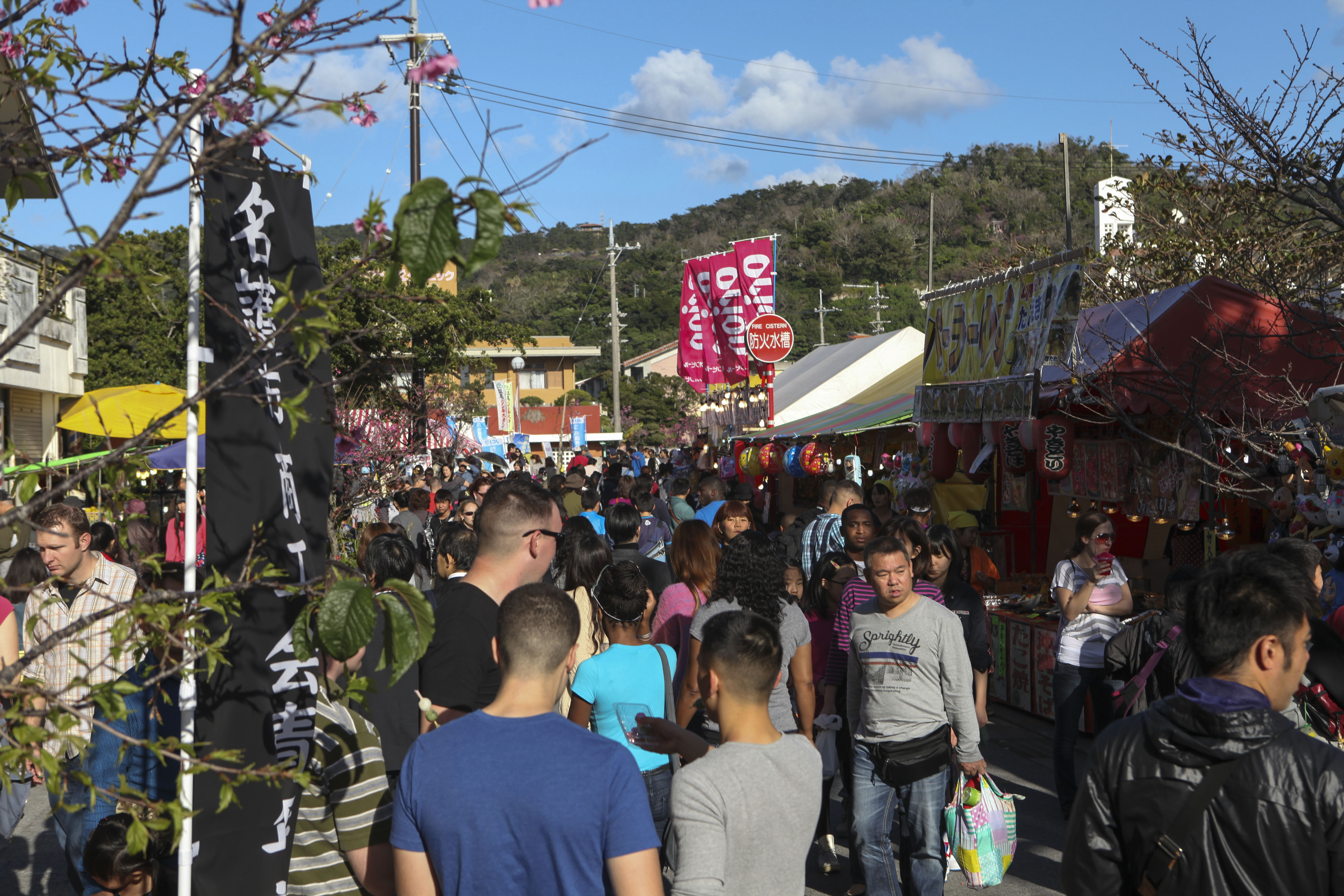 Residents, service members and families walk through the approximately two kilometers of Nago’s 52nd annual Cherry Blossom Festival Jan. 25 at the Nago Castle Ruin Site Park, Okinawa. There were hundreds of vendors serving food and offering prizes for games, in addition to performers, dancers, wrestlers and fire breathers. The city of Nago hosts the first cherry blossom festival in Japan, giving the festival its slogan, “Japan’s spring starts here.” (U.S. Marine Photo by Cpl. Natalie M. Rostran/Released)